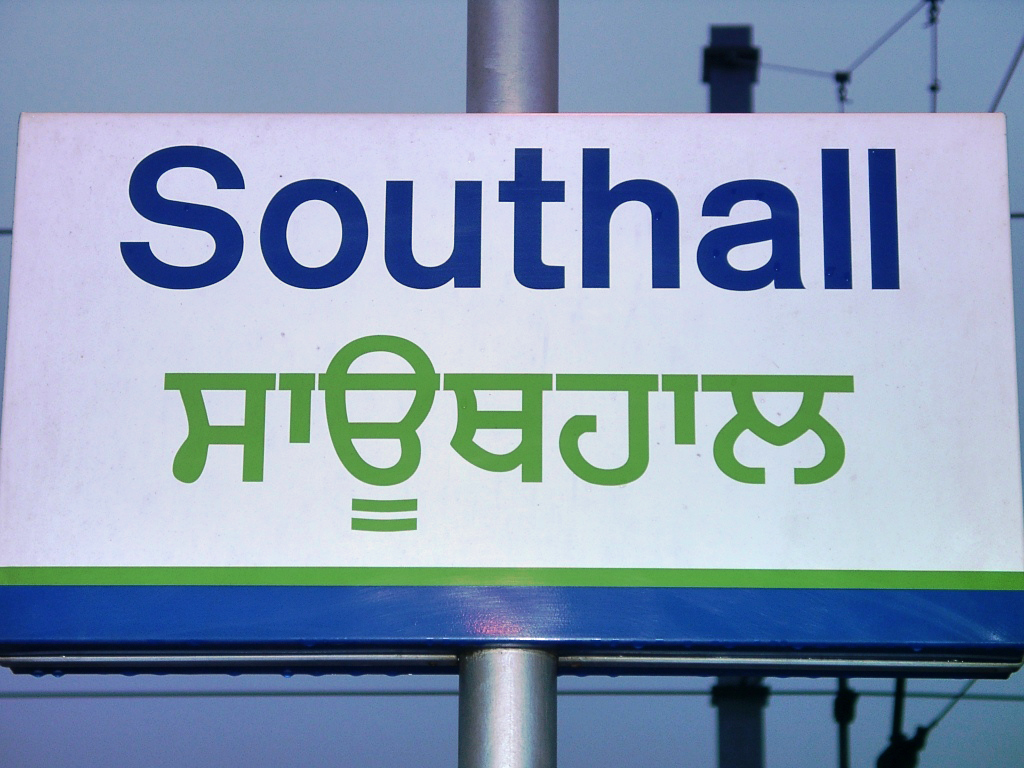 Sign in the Latin and Gurmukhī scripts on the Southall (ਸਾਊਥਹਾਲ) train station. Southall, London, England, UK. ਪੰਜਾਬੀ: ਸਾਊਥਾਲ ਰੇਲਵੇ ਸਟੇਸ਼ਨ ਵਿਖੇ ਲਾਤੀਨੀ ਅਤੇ ਗੁਰਮੁਖੀ ਲਿੱਪੀਆਂ ਵਿੱਚ ਨਿਸ਼ਾਨ। ਸਾਊਥਾਲ, ਲੰਡਨ, ਇੰਗਲੈਂਡ, ਯੂਕੇ।